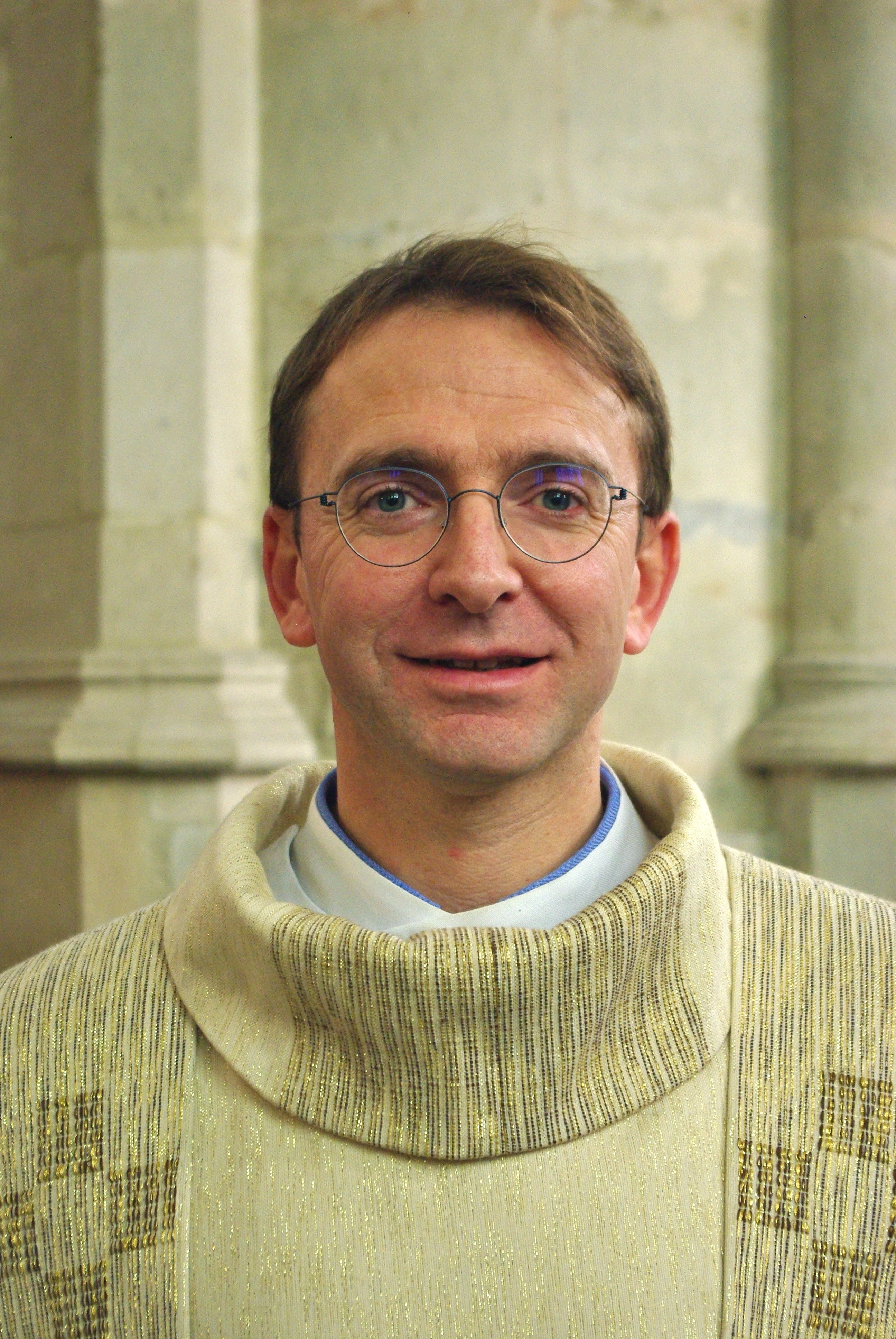 Kristof Struys after celebrating High Mass in the church of Our Lady Across the Dyle in Mechelen on October 1, 2017